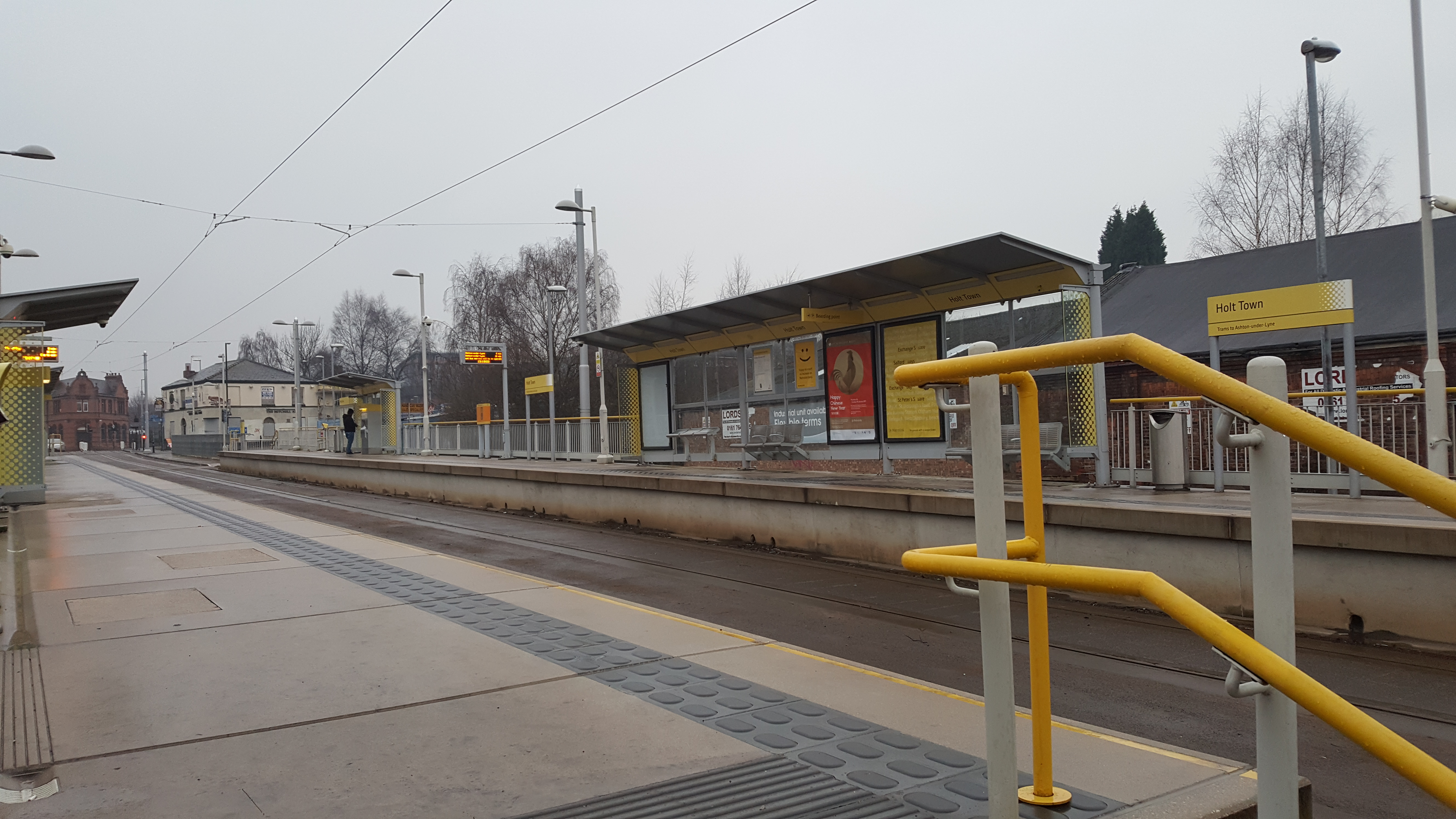 Holt Town Metrolink station.